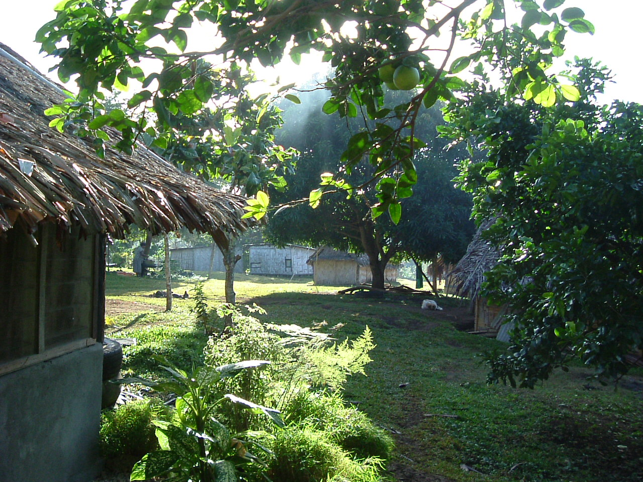 Mae village, Malakula, at dawn, September 6, 2004.